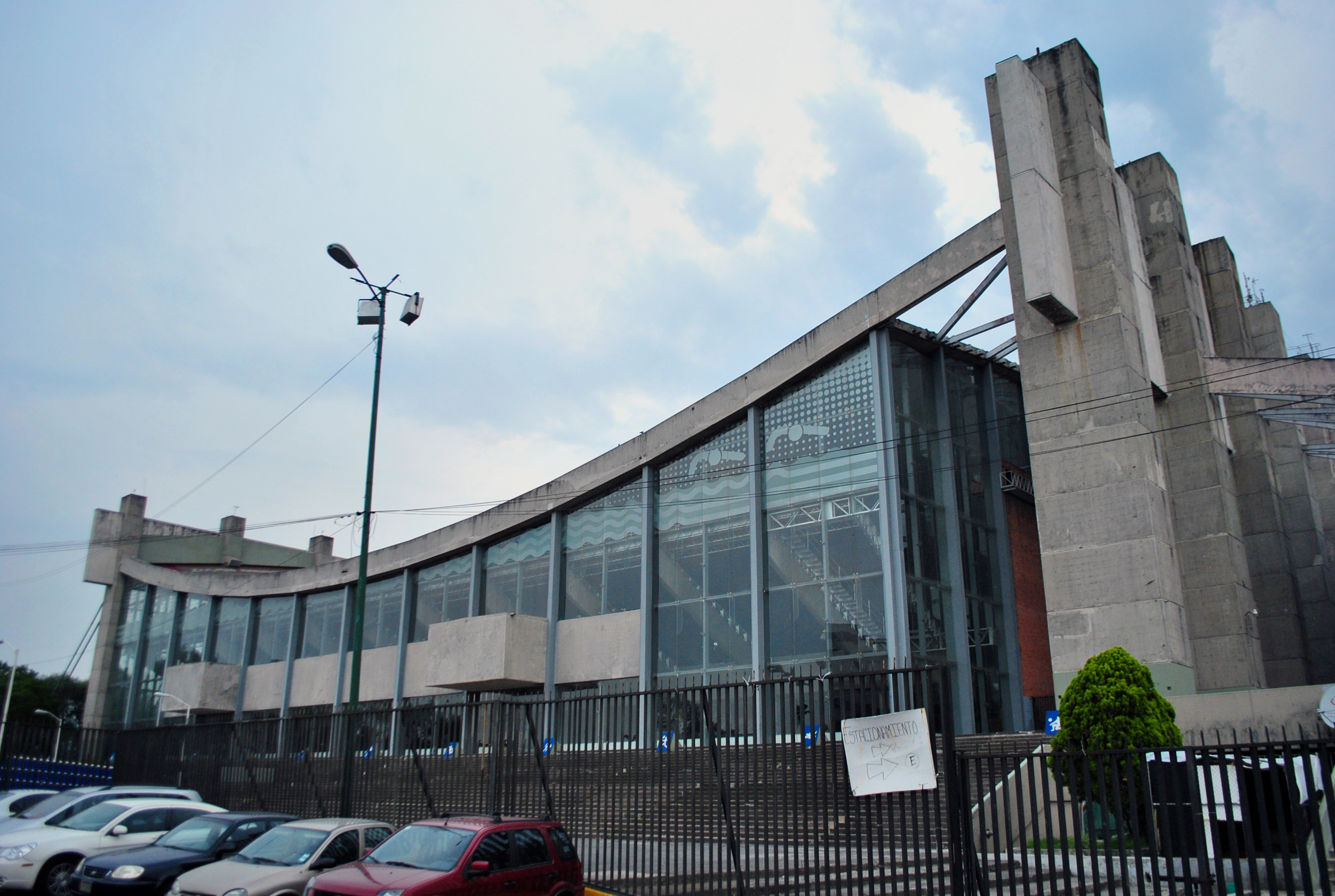 The Francisco Márquez Olympic Pool is a sports arena in Mexico City where held the competitions of swimming, diving, water polo and modern pentathlon in Mexico 1968. Located in Río Churubusco and División de Norte.